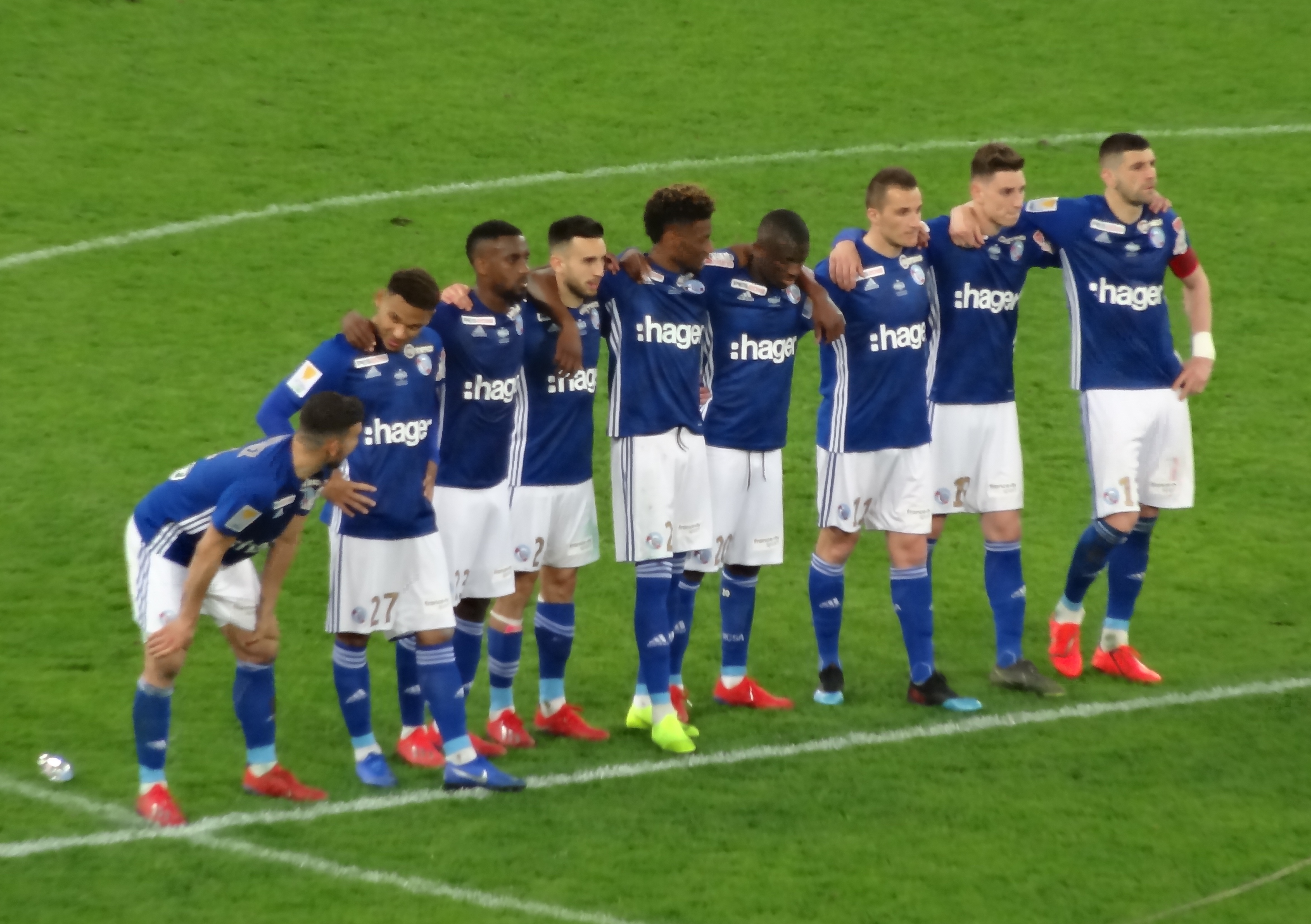 Strasbourg (french League Cup 2019)